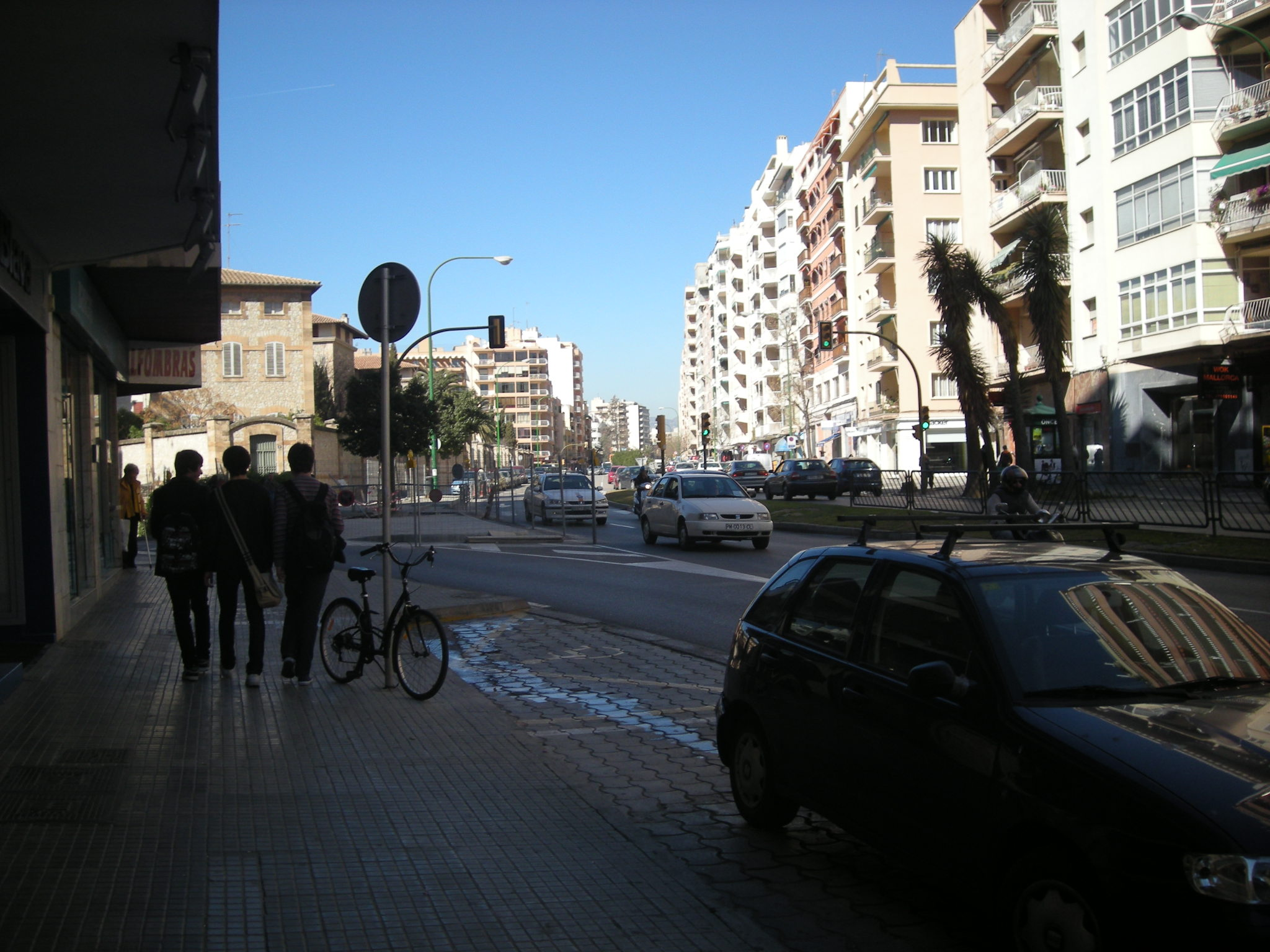 General Riera Street, in Palma